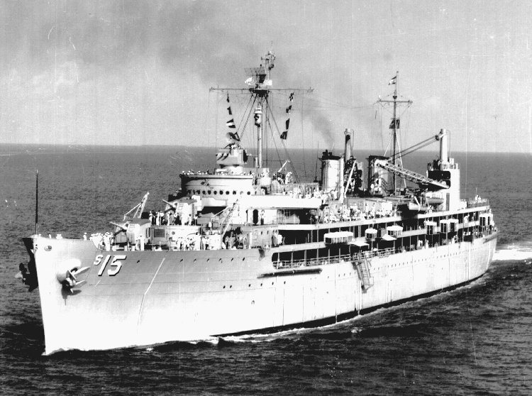 The U.S. Navy Fulton-class submarine tender USS Bushnell (AS-15) as part of Subron 12, off Key West, Florida (USA), in 1963.